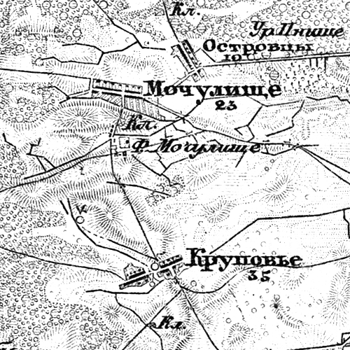 Krupove on the map "Военно-топографическая карта Российской Империи" (known as "Schubert's map"), XX 5, 1866-1887 (issued in 1913).